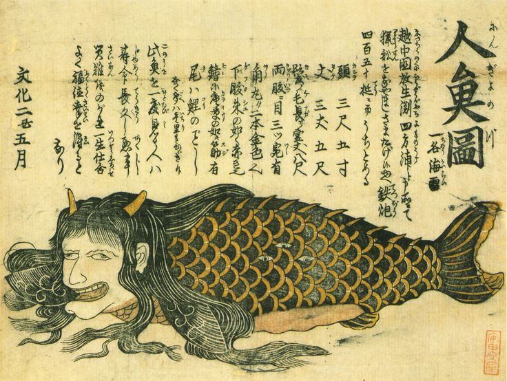 A ningyo (mermaid), aka kairai ("sea lightning") claimed to be caught in "Yomo-no-ura, Hōjō-ga-fuchi, Etchū Province" according to this flier.[1] The correct reading however is "Yokata-ura"[2] in what is now Toyama Bay. Caption title given by Waseda University Theatre Museum which owns a copy.[1] A kawaraban type wood-block printed bulletin. Work is discussed by Hayward.[3]